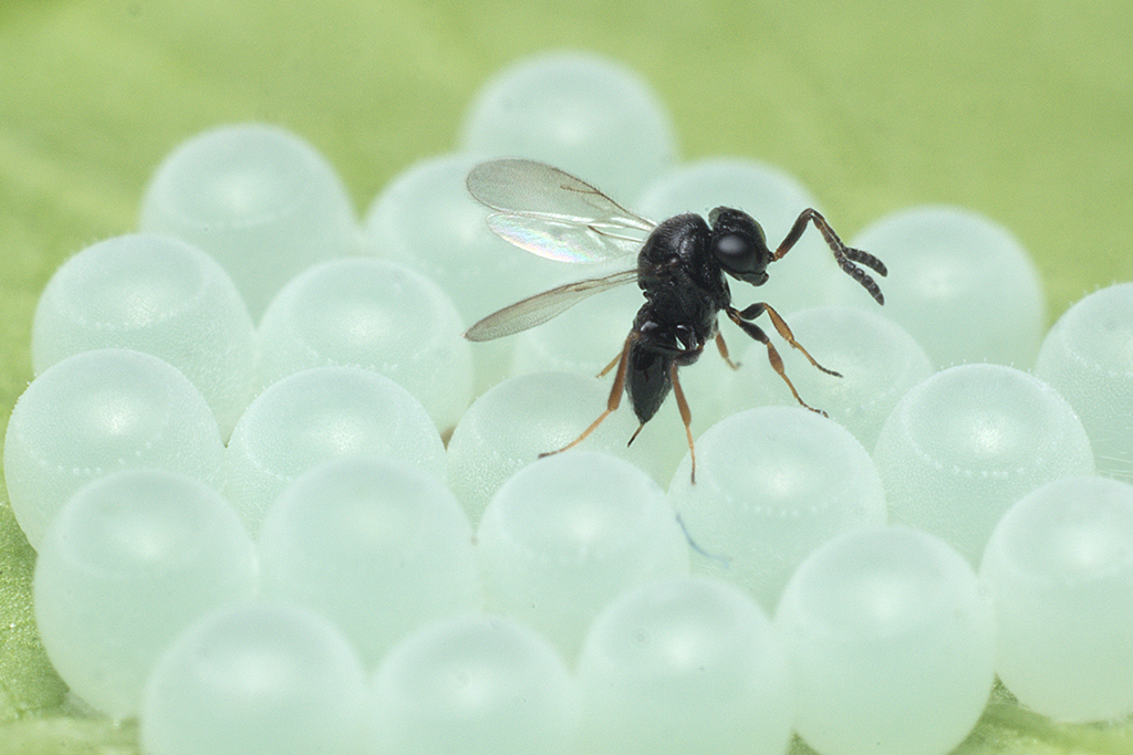 An adult samurai wasp lays eggs in a mass of brown marmorated stink bug eggs. Photo by Chris Hedstrom, Oregon Department of Agriculture.